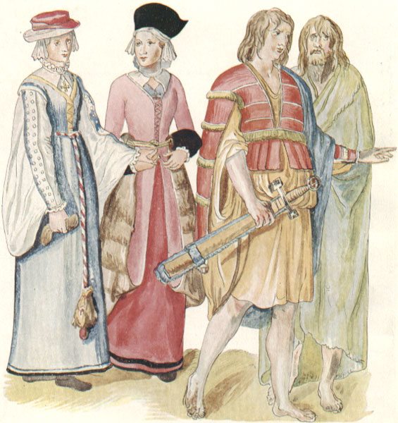 Dutch Water Color Painting of Irish Men and Women, About 1575.